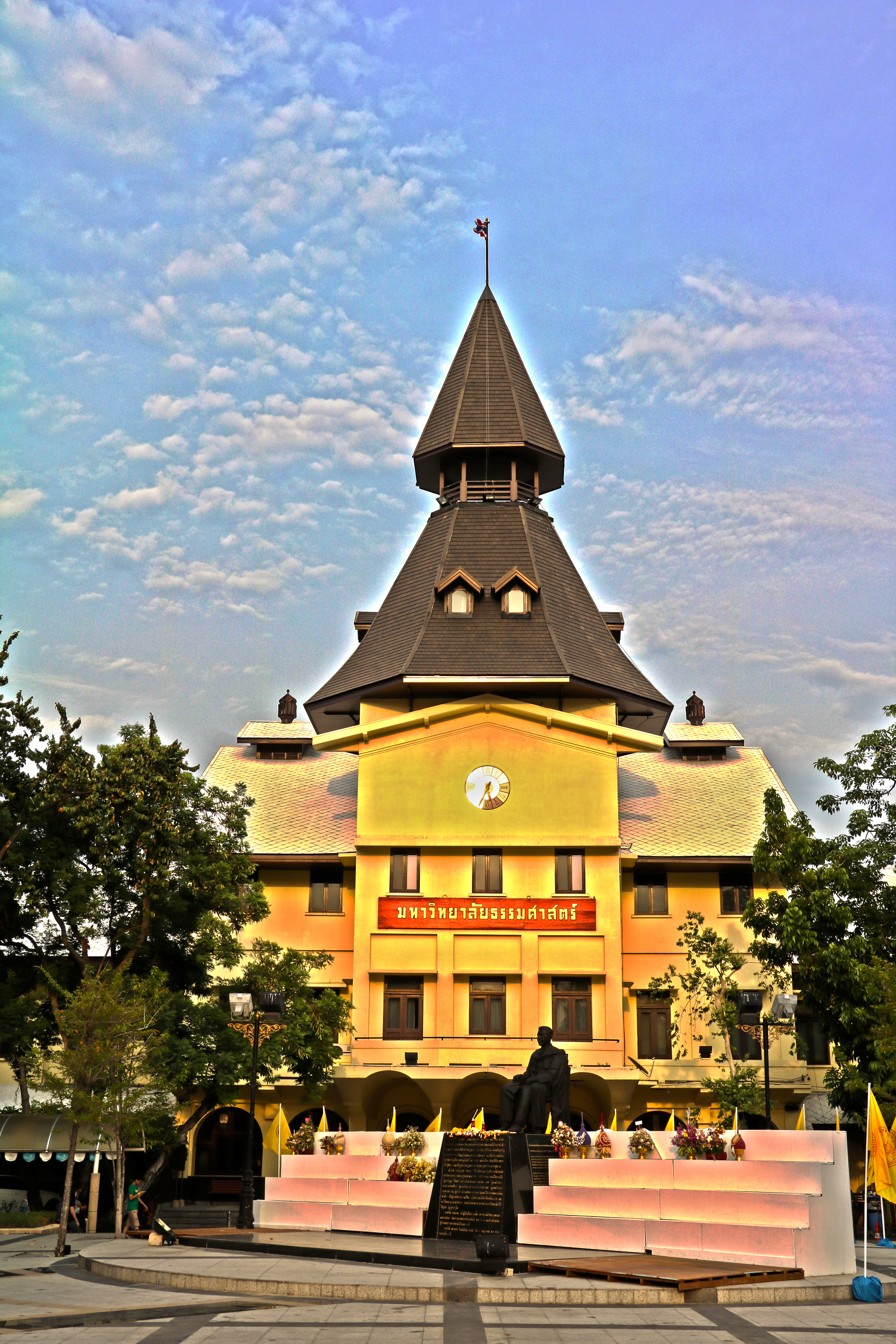 Dome of Thammasat University and Pridi Phanomyong monument